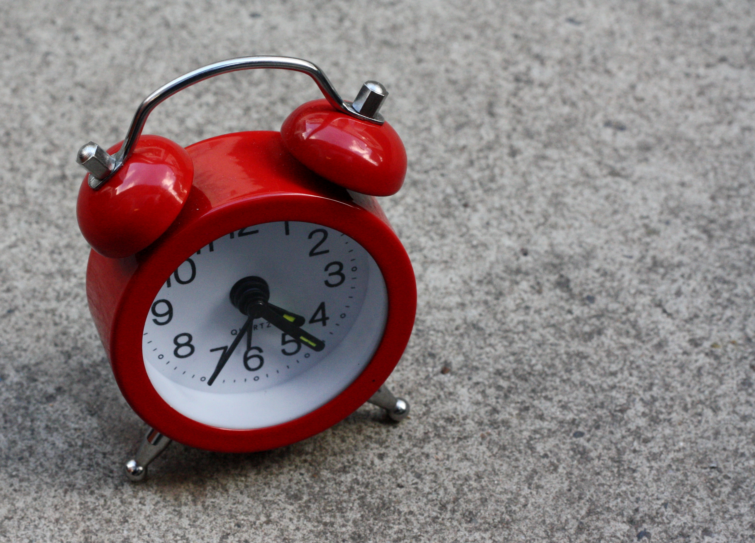 Taken whilst in Manchester, me and a couple of friends were all sat on the ground waiting for other people to come out of a shop. I then had the bright idea to pull my clock out of my pocket and take this photo as a way to pass time. I really like the way this photo came out because the clock itself contrasts with the surface it has been placed upon. Enjoy!